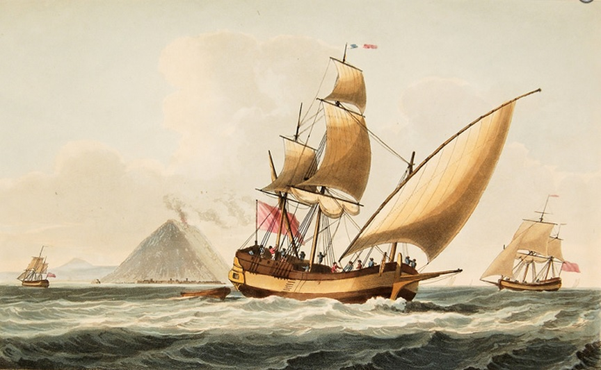 Dominick Serres "A Polacca With a View Stromboli", 1805. From "Liber Nauticus, and Instructor in the Art of Marine Drawing" of SERRES, Dominick, R.A. & John Thomas.